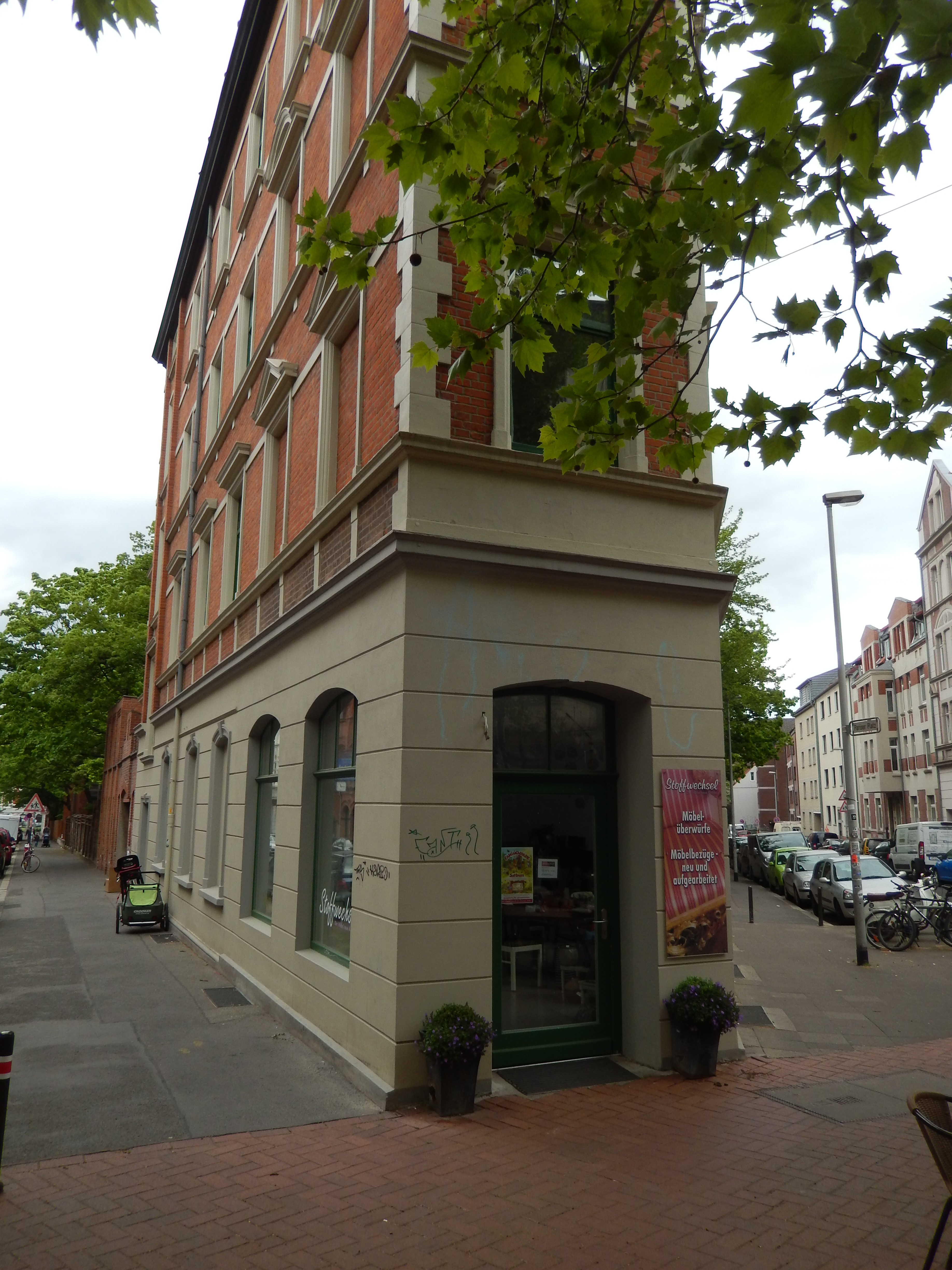 House in Hannover, Germany.